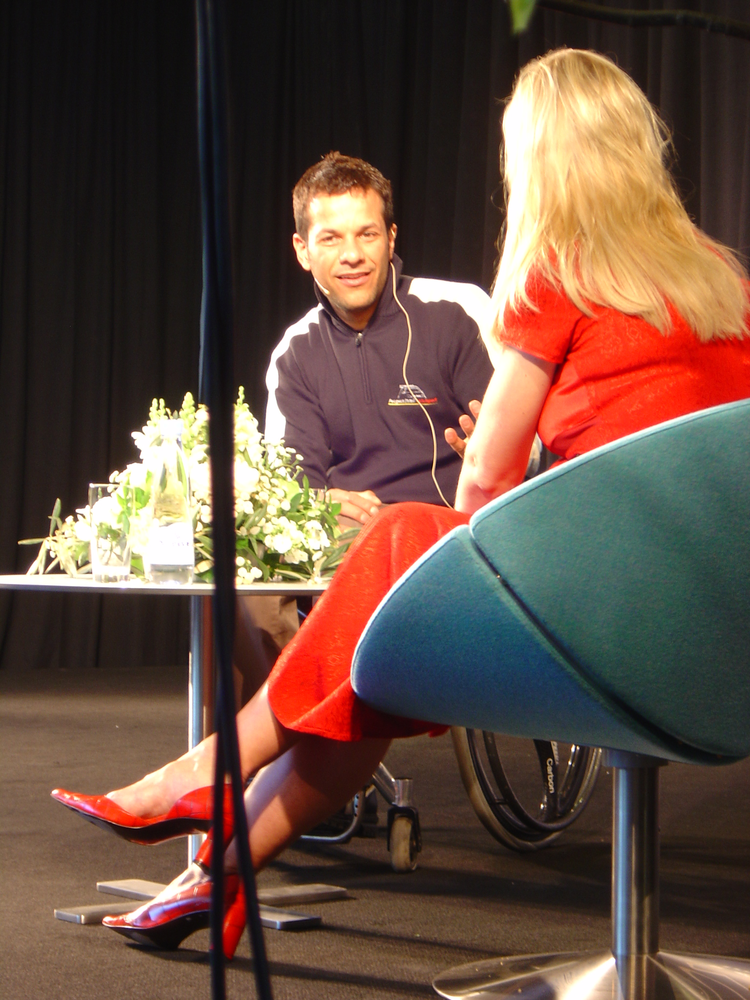 Jason Watt - a Danish racing driver being interviewed by Annette Heick during Copenhagen Motor Show in Bella Center on 17 April 2004.